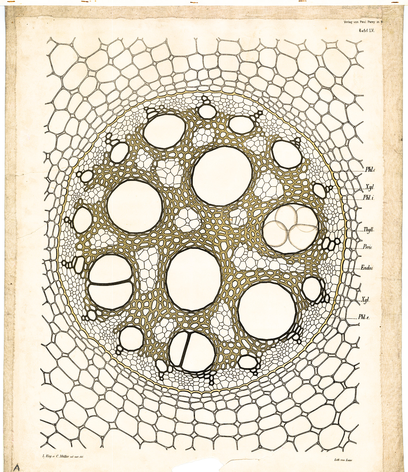 For background and links, please see